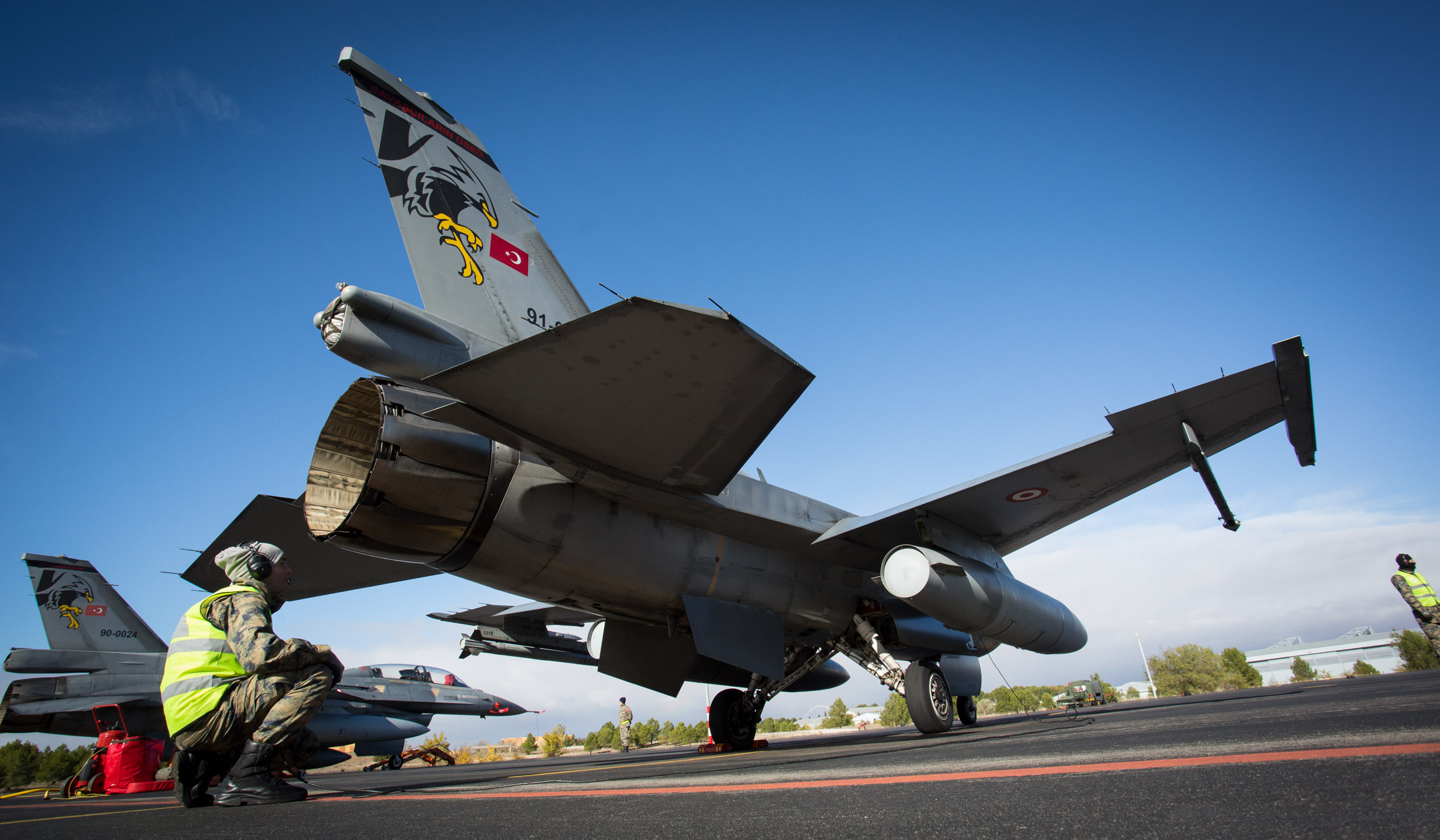 TAF maintenance personnel and TUR F-16 at Albacete Air Force Base, Spain on October 28, 2015 during Trident Juncture 15. (Photo: Cynthia Vernat).